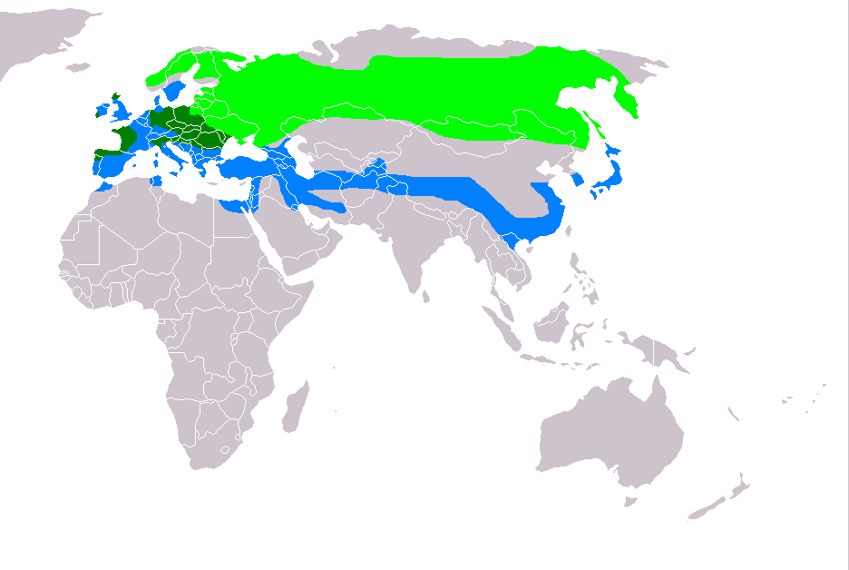 Distribution of Circus cyaneus nesting area resident all year wintering area